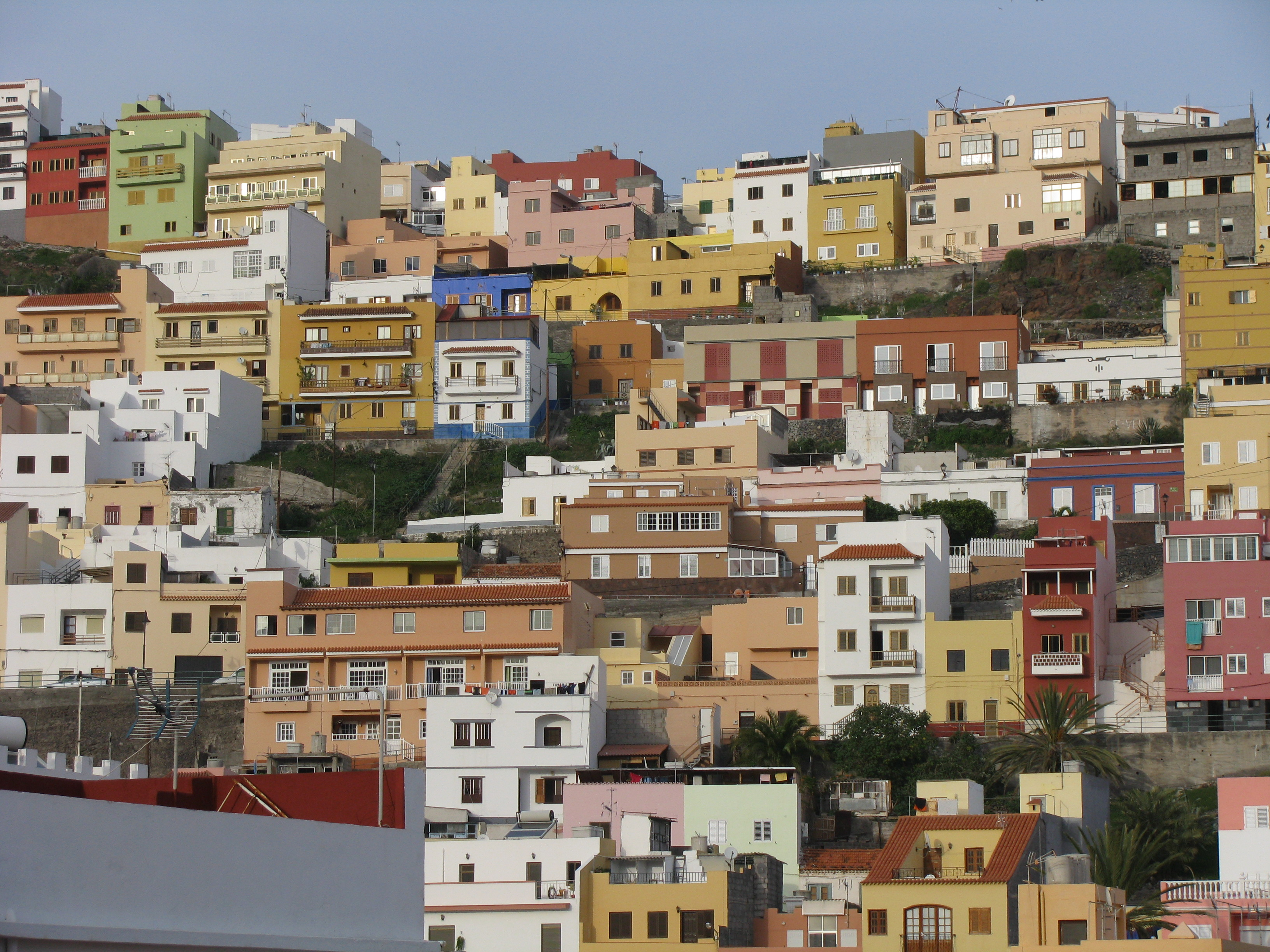 Houses in San Sebastián de La Gomera